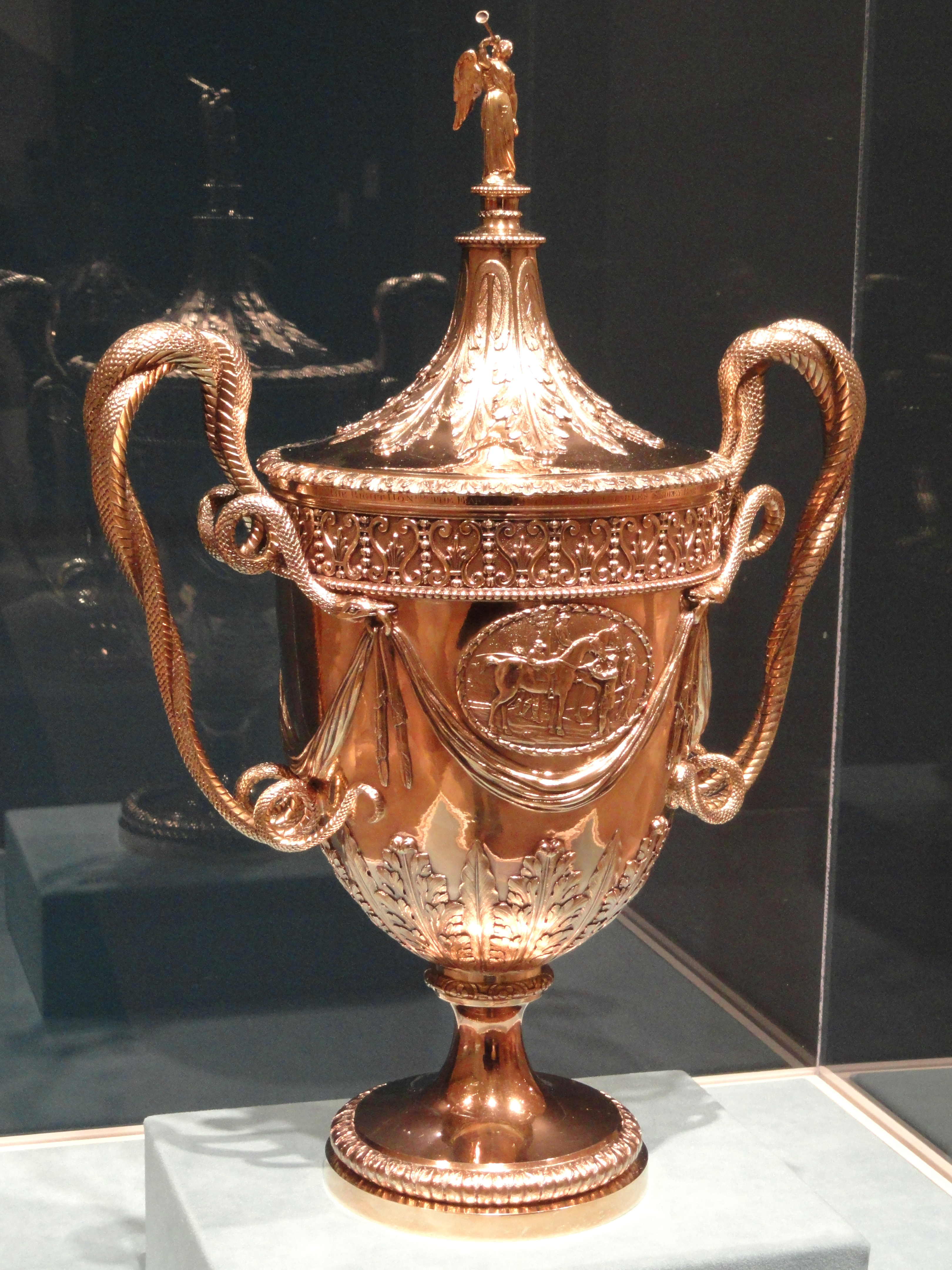 Nottingham Race Cup by Daniel Smith, 1775-1776, gilded silver. Exhibit in the Indianapolis Museum of Art, Indianapolis, Indiana, USA.